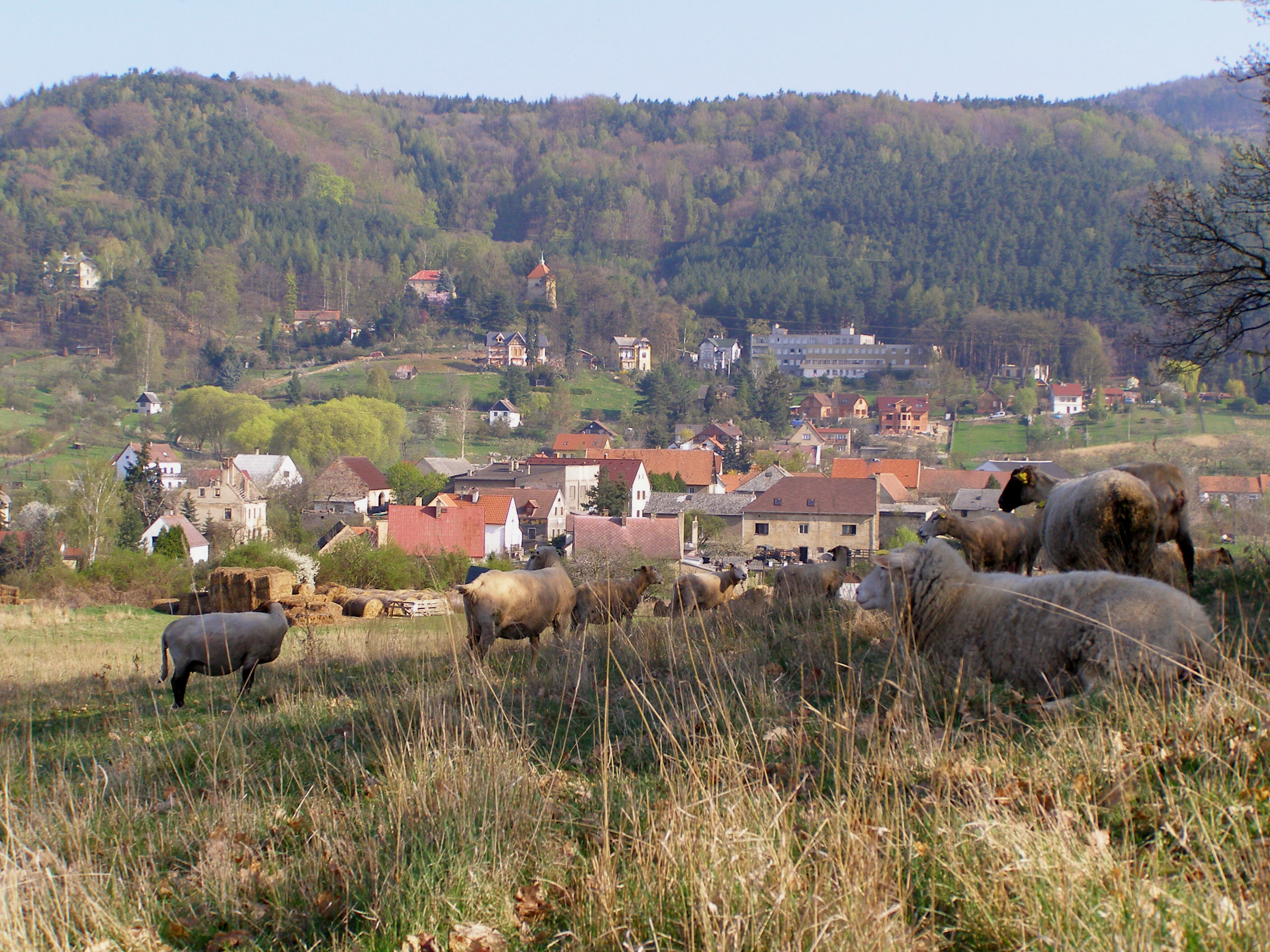 Skalice (Litomerice)